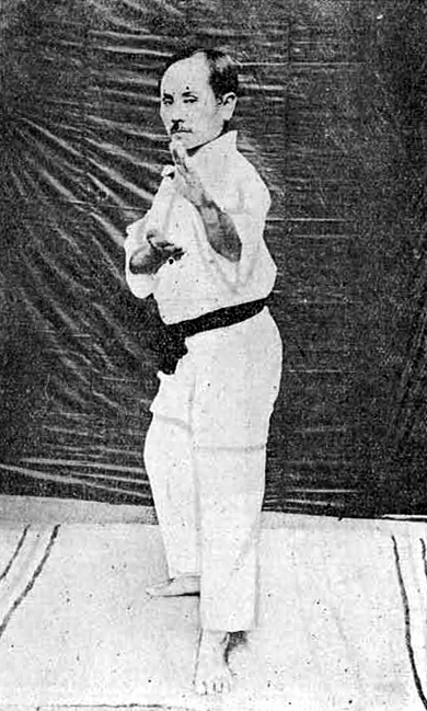 Gichin Funakoshi performing the 11th movement of kata Heian Nidan